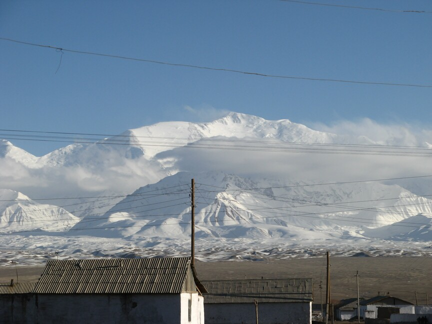 View of the Pik Lenin from the village of Sary-Mogol, Kyrgyzstan